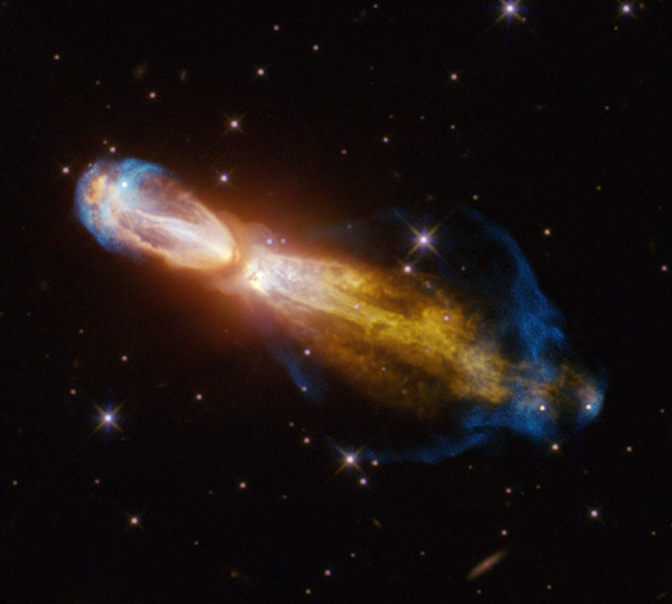 Took a while to get this one done. This data is actually all red and infrared and mapped in a way that the shorter wavelengths are blue so it's representative or false color--however you want to word that. The blue outer shell is a very faint structure which barely shows up above the noise. I went ahead and used Photoshop's noise reduction filter and a median filter on it. The median filter in particular is destructive and I haven't ever used it on any Hubble images before. I decided since the shells were barely there anyway there wasn't much to destroy. The nebula itself is pretty neat . It's also called the Rotten Egg because of its sulfur content. You don't want to sniff it. Red: hst_11580_08_wfc3_ir_f167n Green: hst_11580_08_wfc3_ir_f110w Blue: hst_08326_51_wfpc2_f791w_wf Blue-green screen layer for the blue shells: hst_08326_50_wfpc2_f656n_wf North is NOT up, it's 43.9° counter-clockwise from up